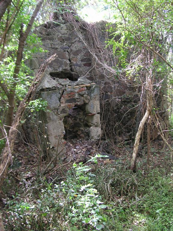 Photograph of the Great Thatch island ruin, British Virgin Islands